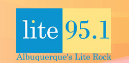 Former logo of KLQT used from 2010 to 2012.